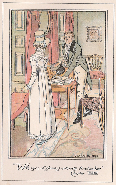 Persuasion (last Jane Austen Novel) ch 23 : Captain Wentworth is showing his letter to Anne, "with eyes eyes of glowing entreaty fixed on her"